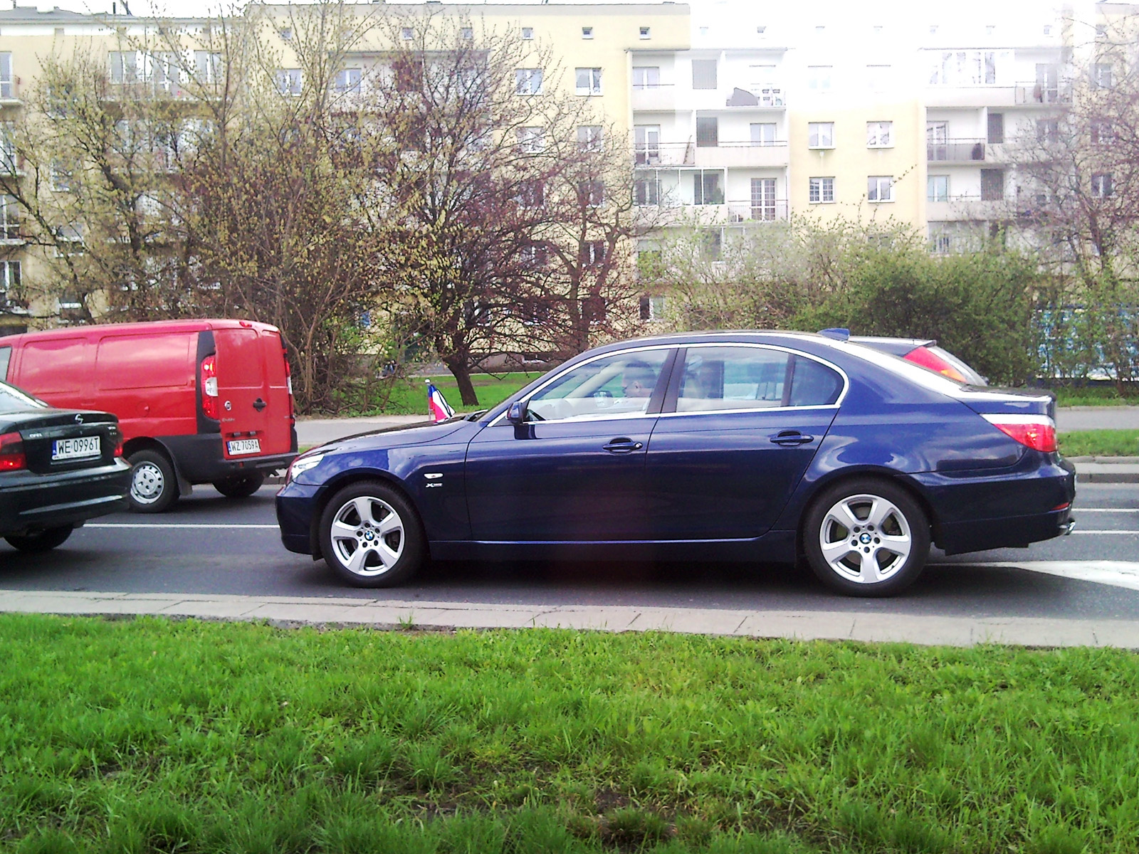 Chilean diplomatic corps car with the national flag of Chile with pall in Warsaw 2010.